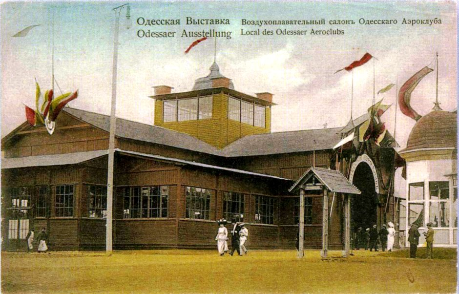 Old Carte Postale (Open Letter) with view of pavilion Aeronautics at Odessa Exposition 1910